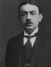 Ahmet Ferit Bey (Tek)